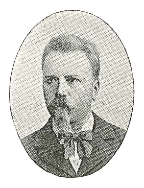 Nils Torpson (1855-1920), Swedish teacher and headmaster at Folkskoleseminarium, writer of textbooks, mainly in geography.